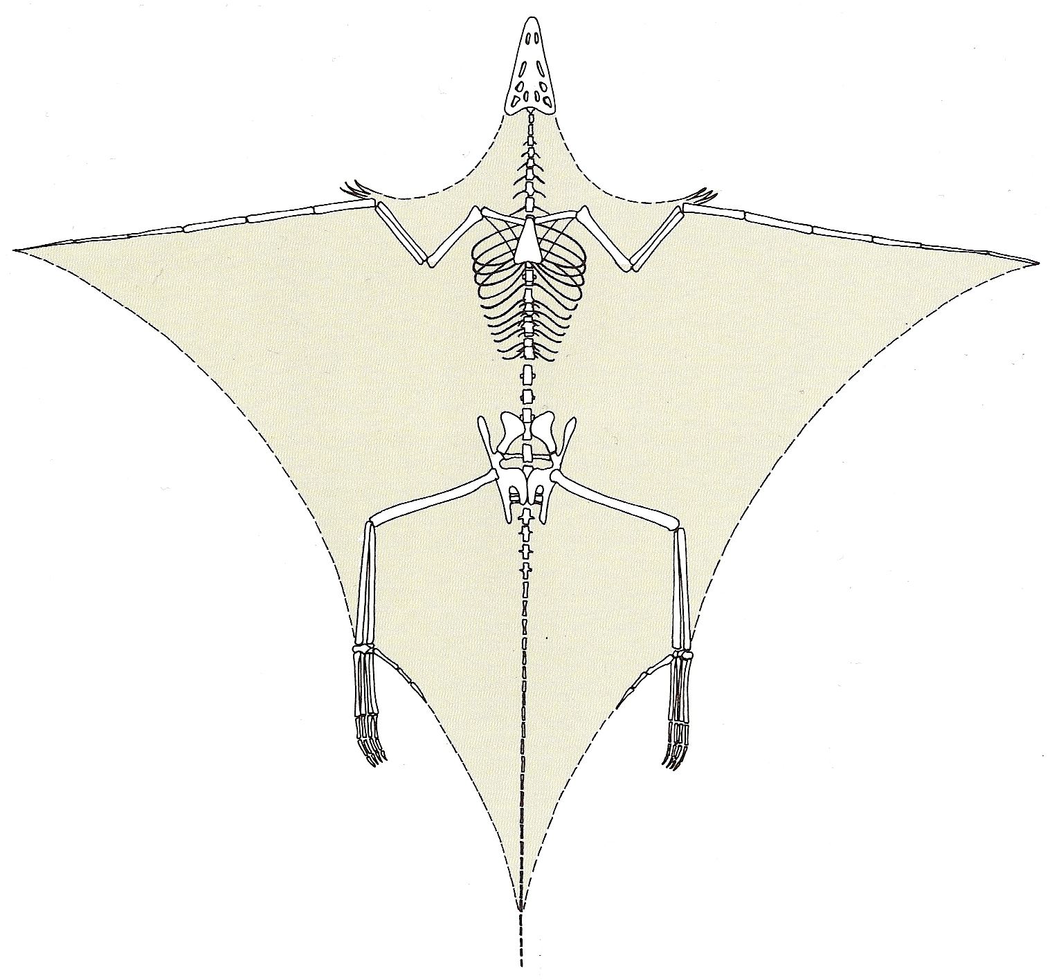 Nopcsa's restoration of Tanystropheus (then “Tribelesodon”) longobardicus as a long tailed pterosaur.